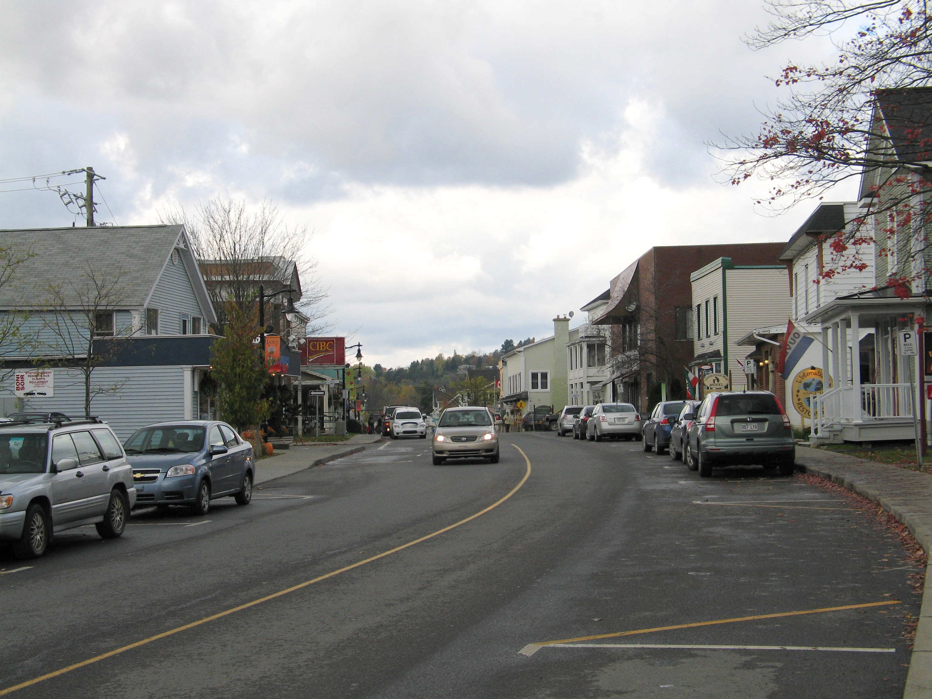 Downtown Sutton, Quebec